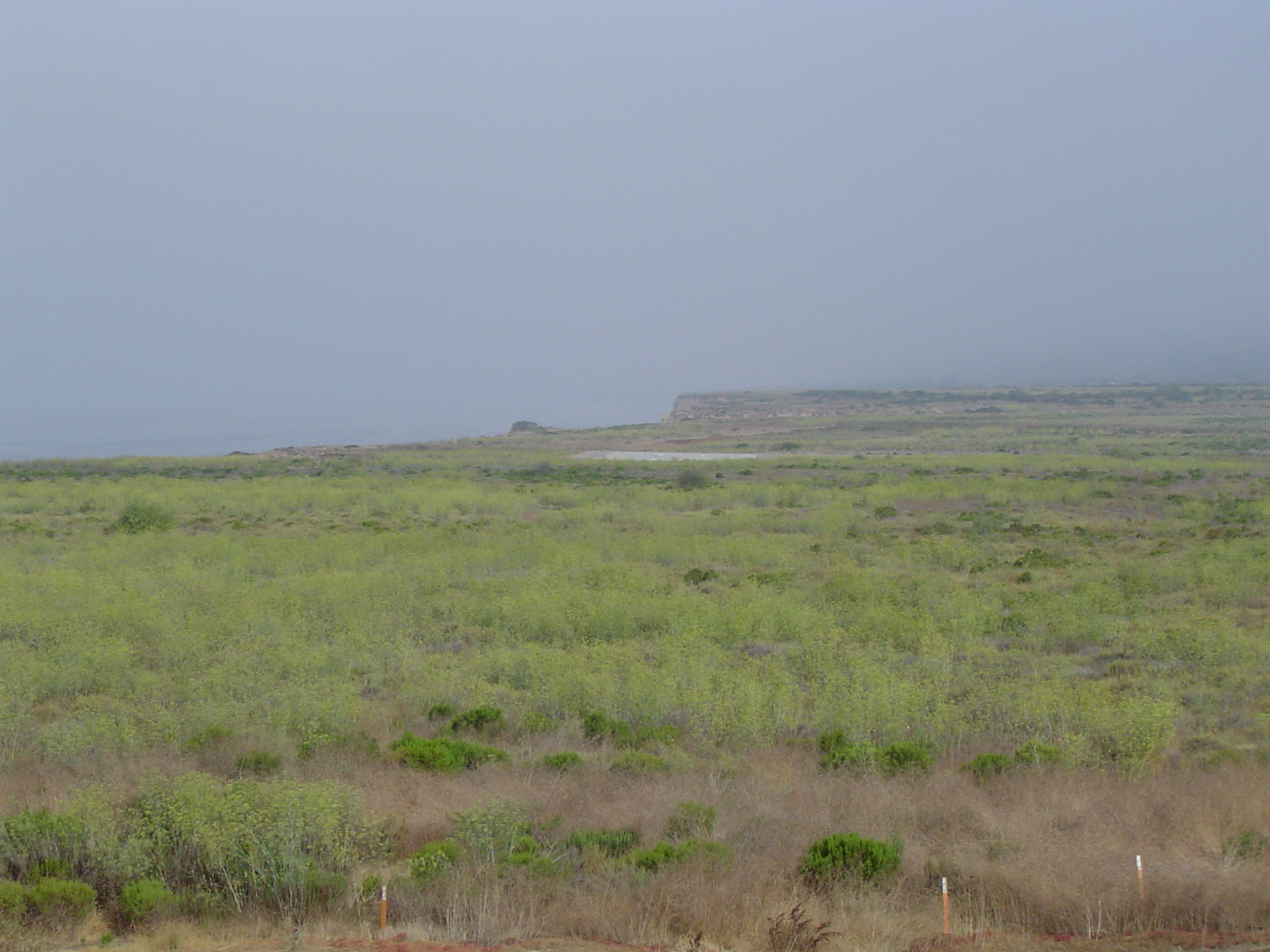 The edge of Camp Pendleton embraced by the sea fog, as seen from a vista point near San Onofre State Beach, with Pacific Ocean in the backdrop. California coastal sage and chaparral habitat. San Diego County, California, on August 6, 2005.